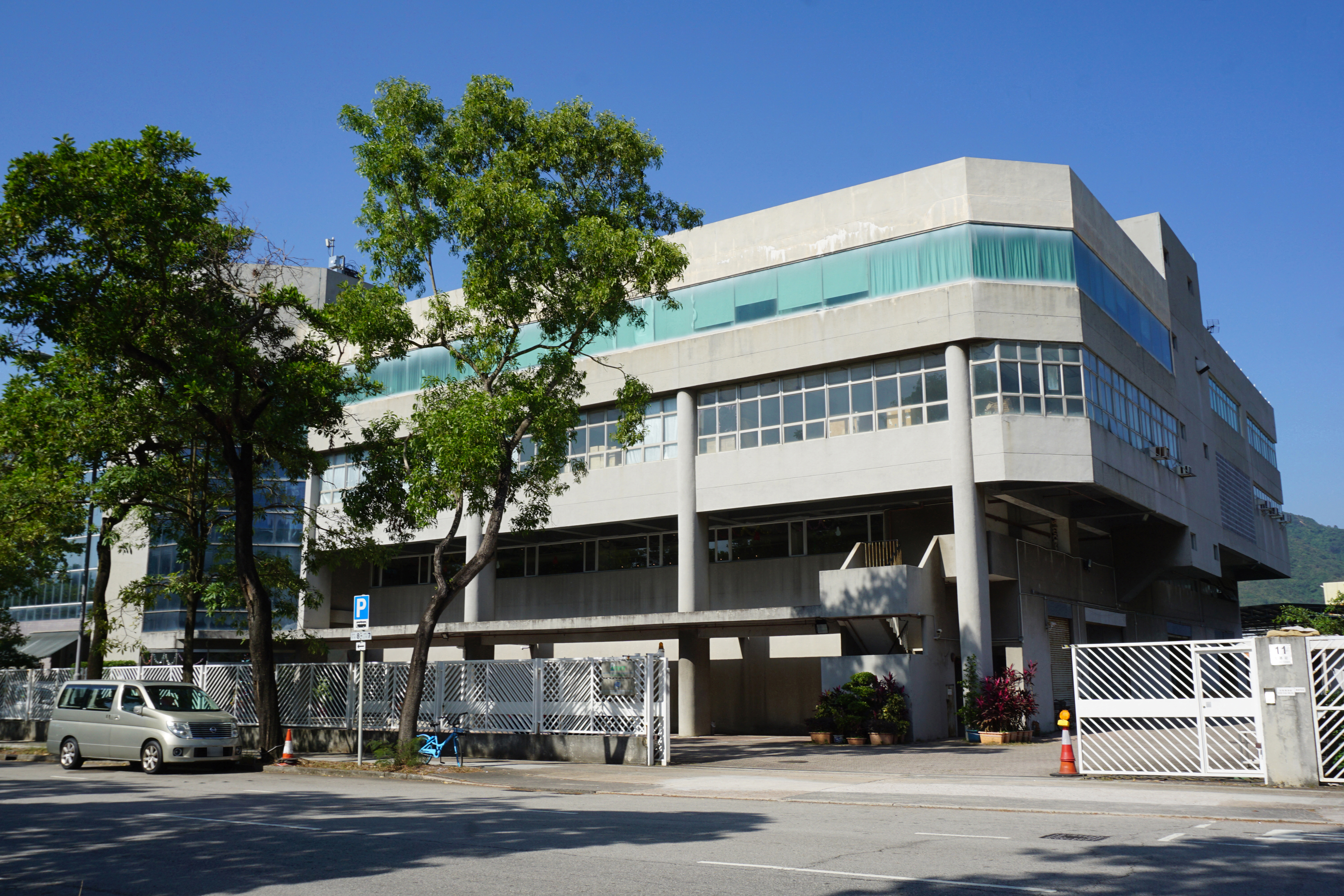 Process Automation International Limited in Tai Po, Hong Kong.